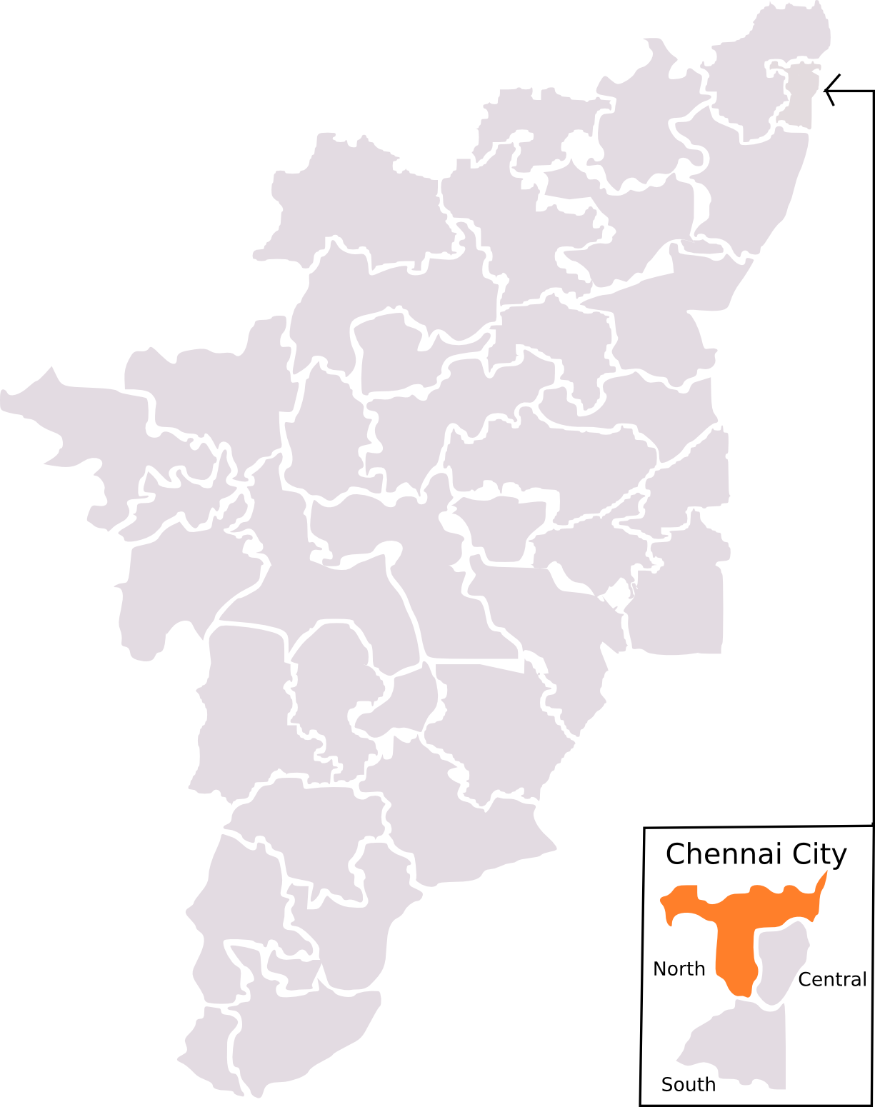 Lok Sabha Election map for Tamil Nadu that illustrates constituencies put in place by 1971 delimitation that was replaced in 2008. Map is based on ECI drawn map.